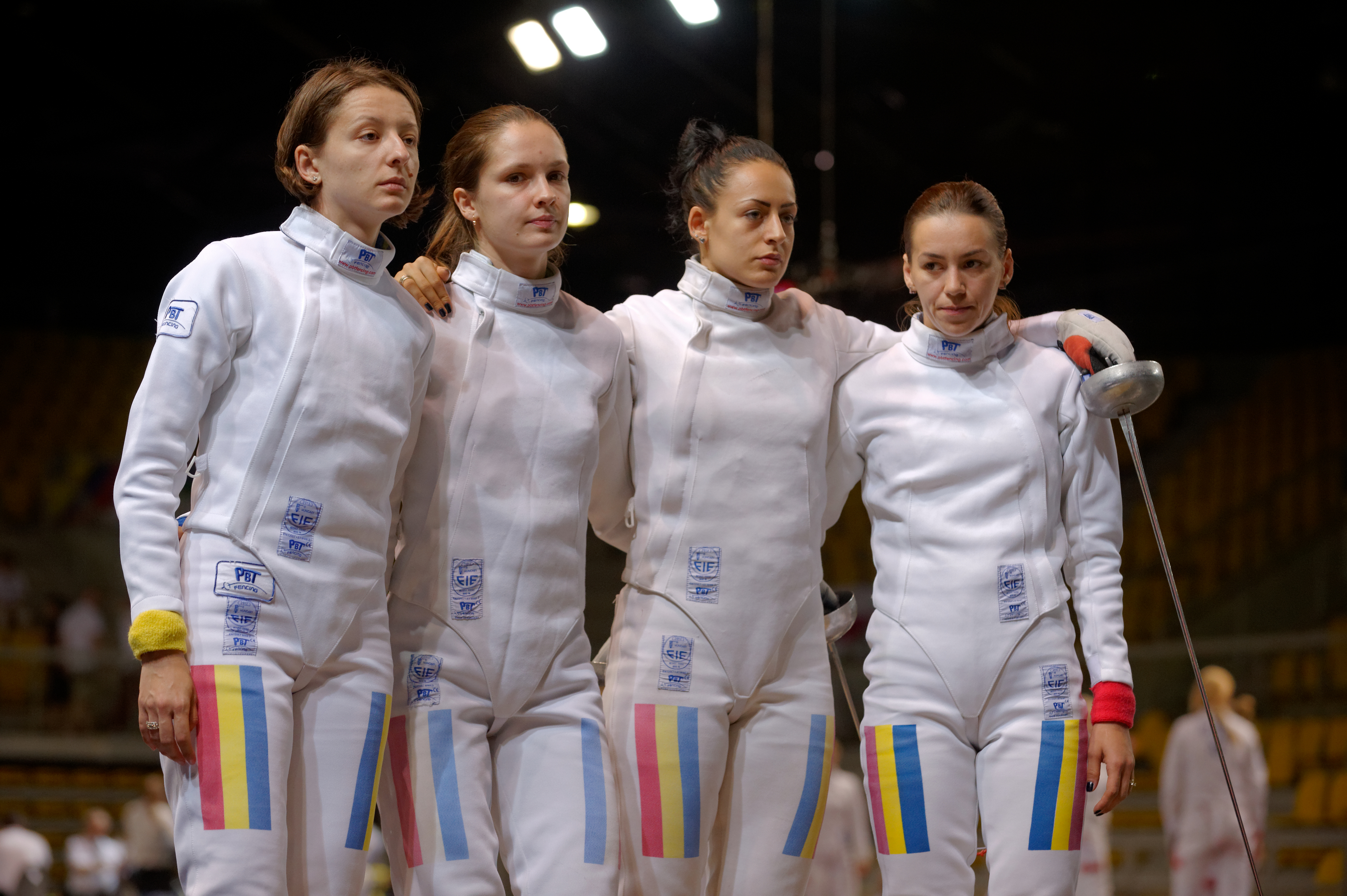 Romania (from left to right, Ana Maria Brânză, Simona Pop, Maria Udrea, and Simona Gherman) prepare to face Italy in the semi-finals of the women's team épée event at the European Fencing Championships at Rhénus Sport in Strasbourg on 12 June 2014.